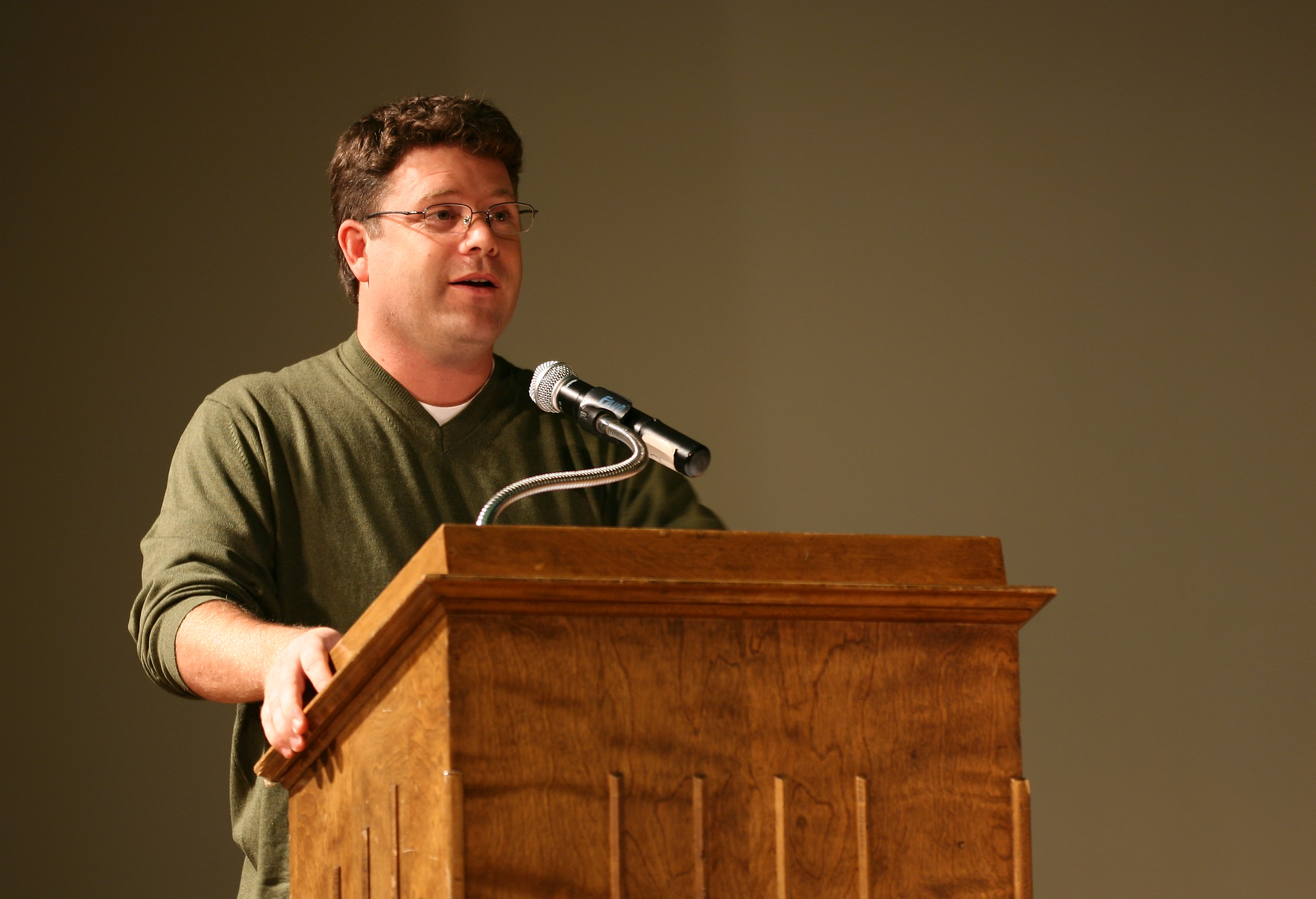 The actor Sean Astin giving a talk at the University of Illinois at Urbana-Champaign